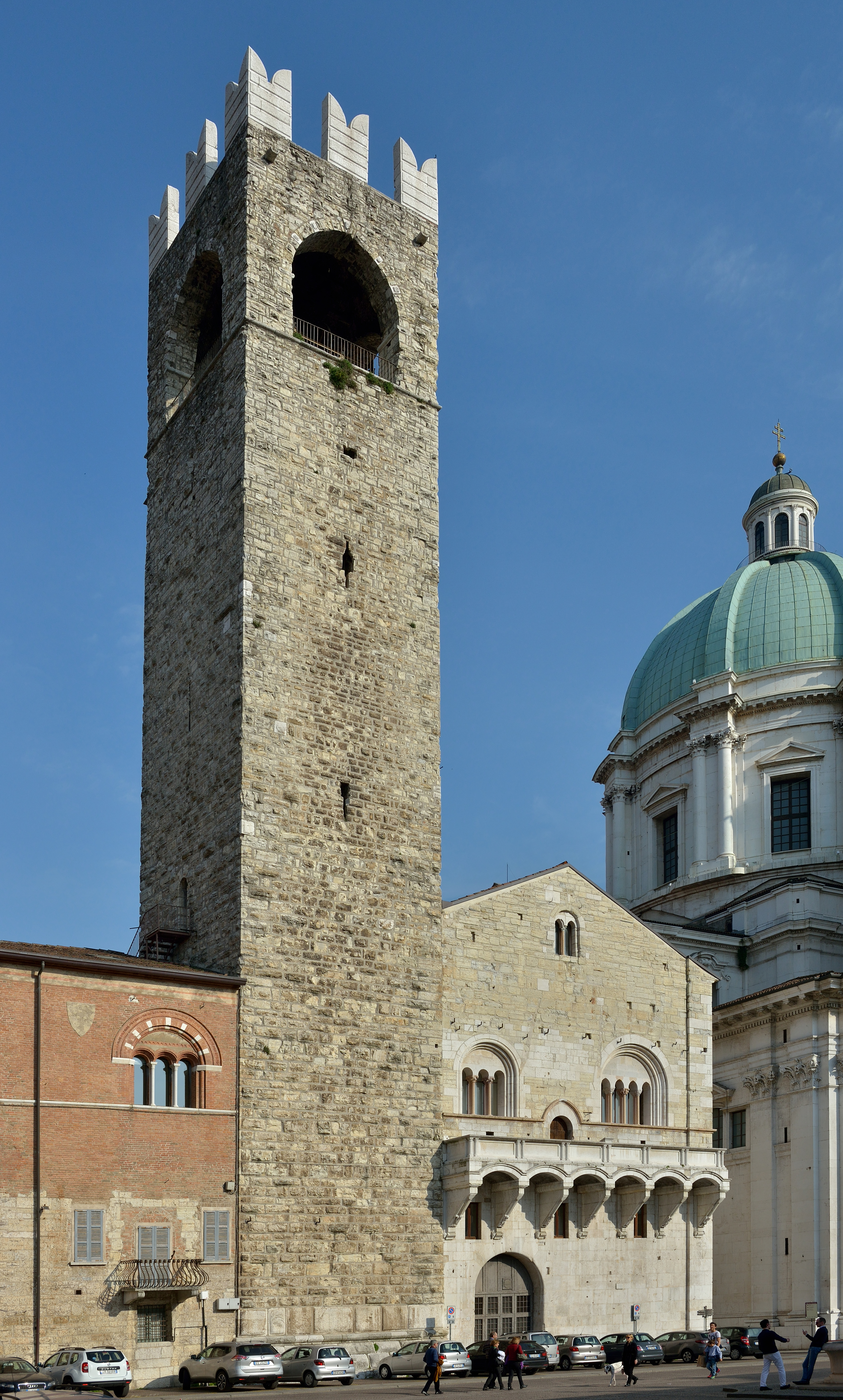 Civil buildings Broletto and Torre del popolo in Brescia